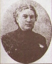 Portrait of Daria_Harjevschi (1862–1934), a Romanian librarian who headed the Public Library of Chișinău in today's Moldova